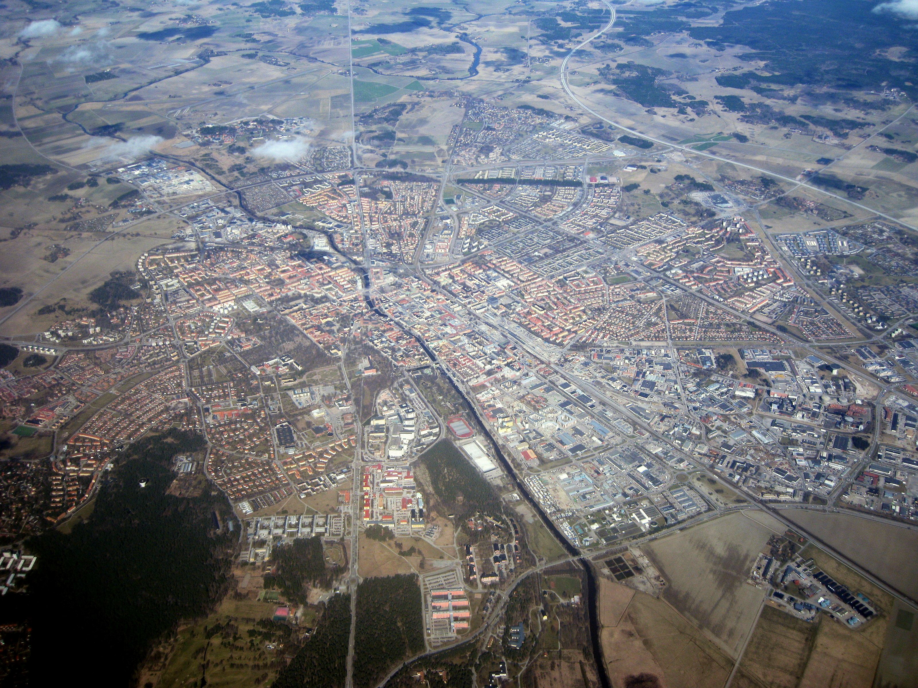 Aerial photo of the Swedish town of Uppsala, taken from a commercial airliner. North is (roughly) up on the image.